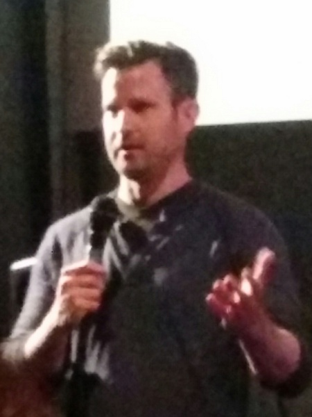 Richard Kelly at a Q&A session for Southland Tales at the Roxie Theatre in San Francisco, California, United States